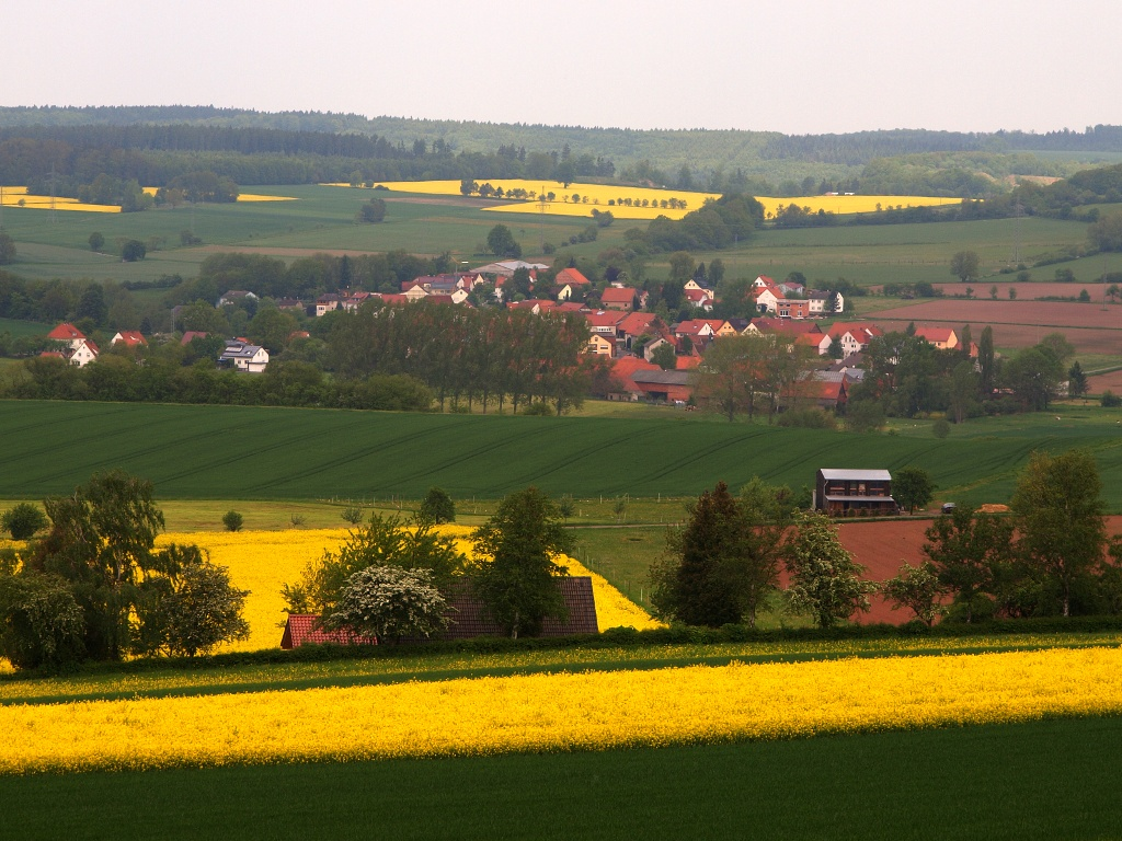 The village Friedewald-Motzfeld in Rhön Mountains